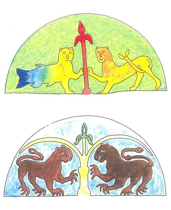 Two tympanons of Romanesque churches at Vurpod and Vizakna, Transylvania.